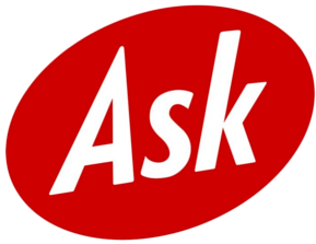 Logo of